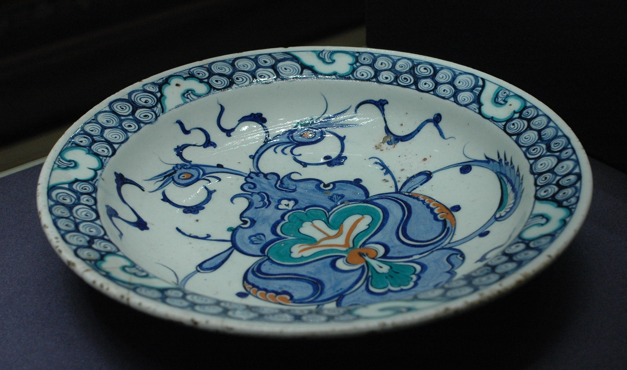 Dish with fantastic creatures and plants decoration. Composite body, engobe decoration, underglaze painted. Made in Iznik, Ottoman Empire (modern Turkey), ca. 1600–1610.